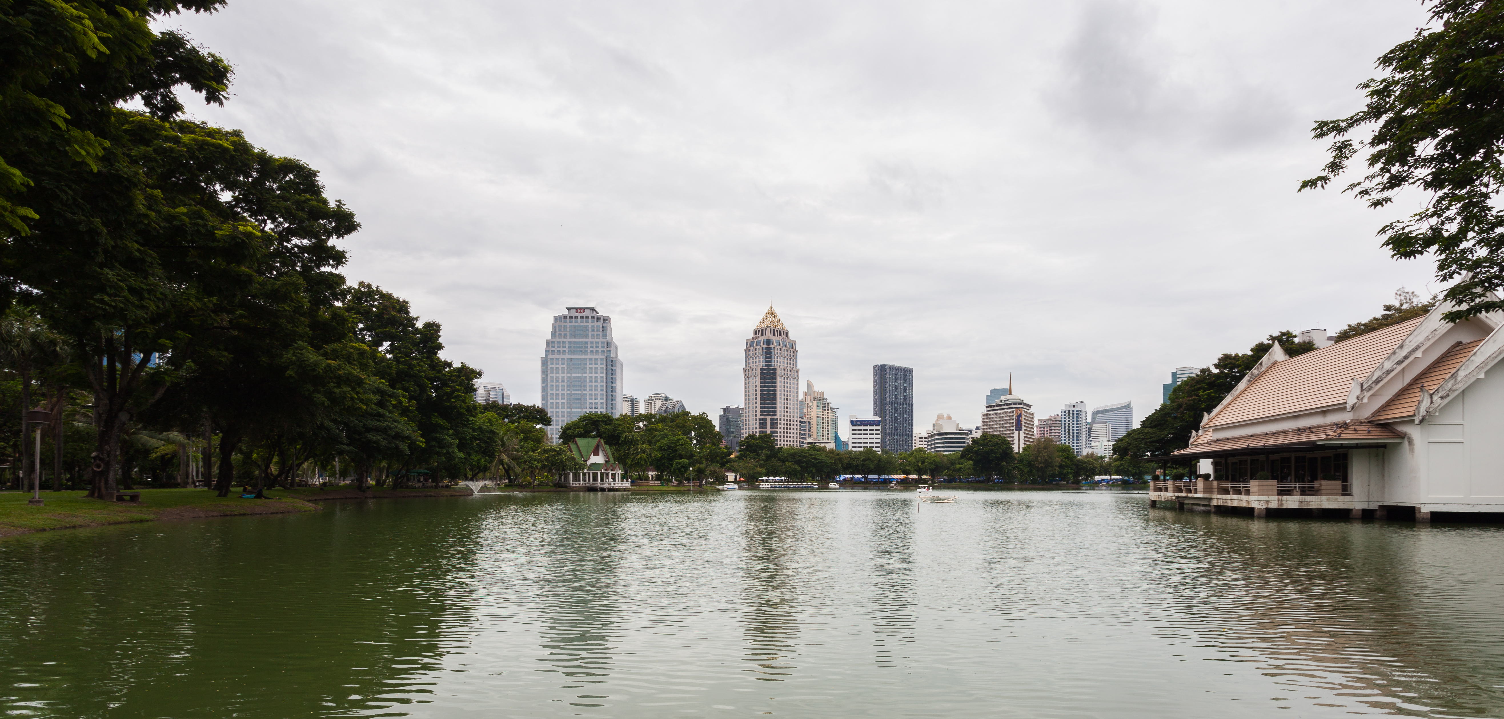 Lumphini Park, Bangkok, Thailand